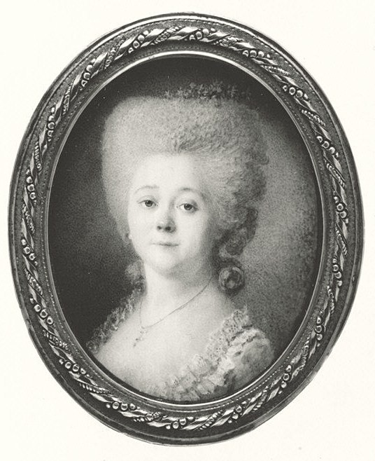 Princess Apraxine